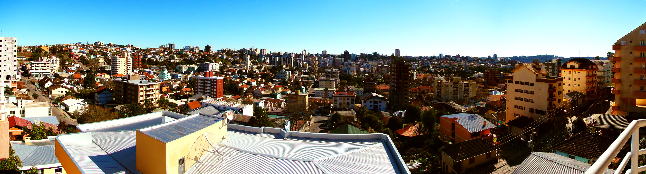 Panorama view from the Mont Blanc Hotel.